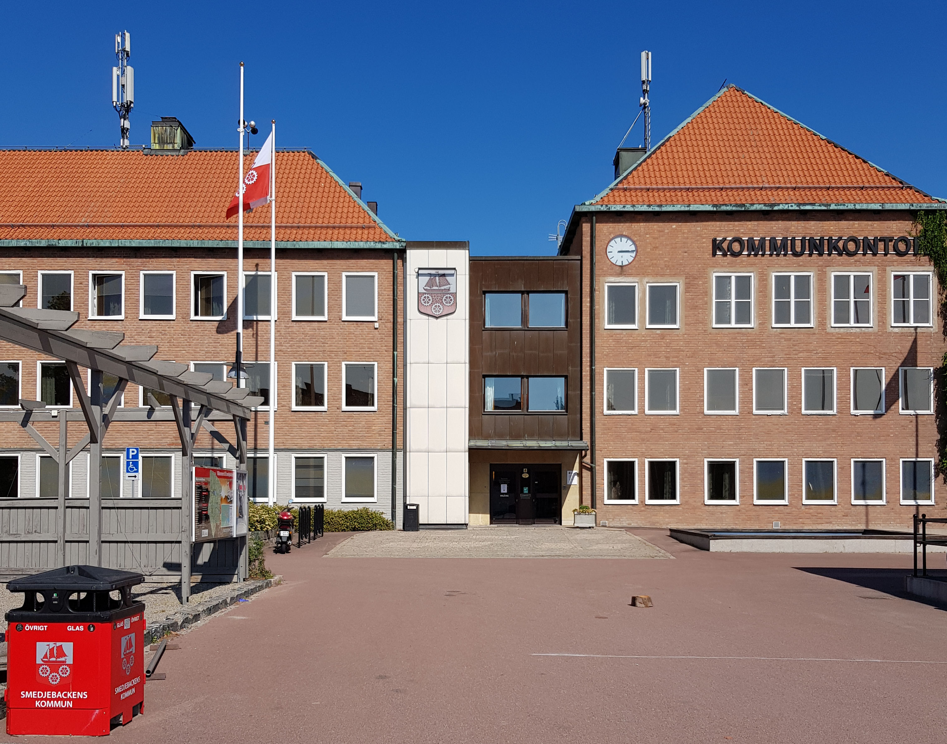 A picture of Smedjebackens municipal building.